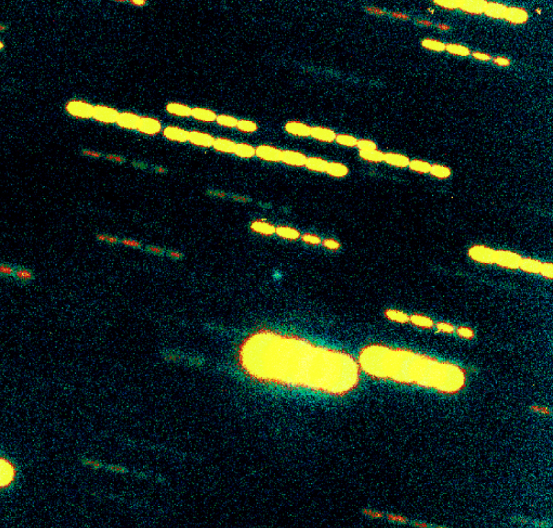 The image reveals a false-colour composite image of the nucleus of Comet Wirtanen (the point of light at the centre), recorded on December 9, 2001, with the FORS2 multi-mode instrument at the 8.2-m VLT YEPUN Unit Telescope. It is based on four exposures and since the telescope was set to track the motion of the comet in the sky, the images of stars in the field are seen as four consecutive trails. The measured brightness and the fact that the image of the comet's 'dirty snowball' nucleus is almost star-like indicates that it is surrounded by a very small amount of gas or dust. The diameter of the nucleus is about 1 km and the distance to the comet from the Earth was ~534 million km. The comet was located in the southern constellation of Sagittarius, rather low over the western horizon. The first two exposures were made through a standard R-filter and lasted 300s each (airmass 2.4 - 2.5); they were followed by two V-exposures of 250 (airmass 2.7) and 200 (2.8) seconds, respectively. The seeing at this low altitude was 1.0 - 1.2 arcsec. The measured magnitudes of the nucleus were R = 22.6 and V = 23.4 (both ± 0.1). North is up and east is to the left. The field measures approx. 2.0 x 2.0 arcmin 2 ; 1 pixel = 0.2 arcsec.